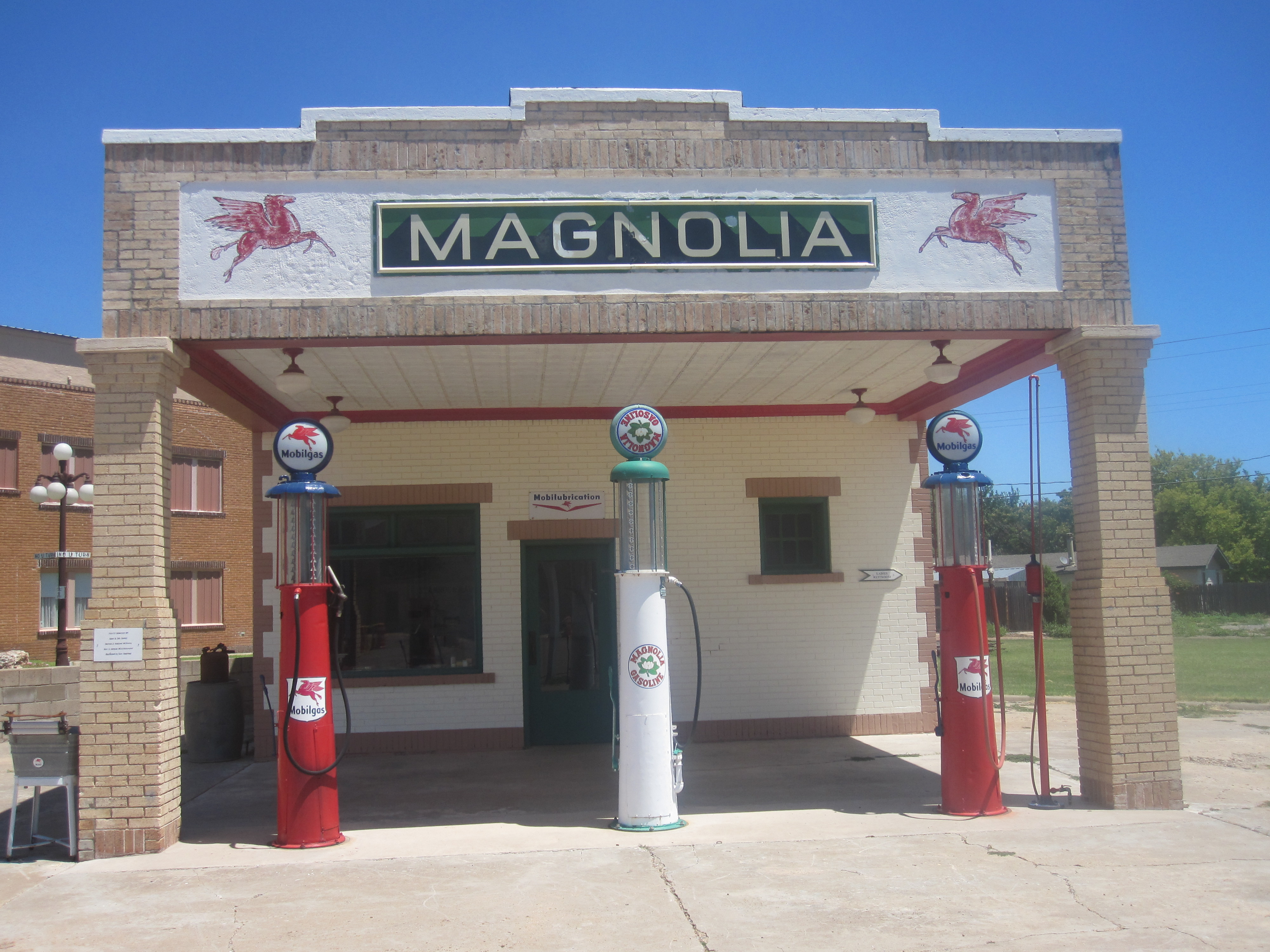 I took photo with Canon camera in Shamrock, TX, on old Route 66.